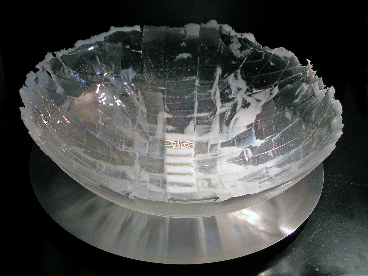 Glass art by Lousanne Schuuring in the Netherlands